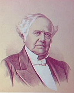 Robert Towns (c. 1794 – 11 April 1873) was an Australian businessman, pastoralist, and founder of Townsville, Queensland. Towns also owned the plantation 'Townsvale’ at Veresdale, Queensland and built the first structures, a store and wharf, at Logan Village, Queensland.